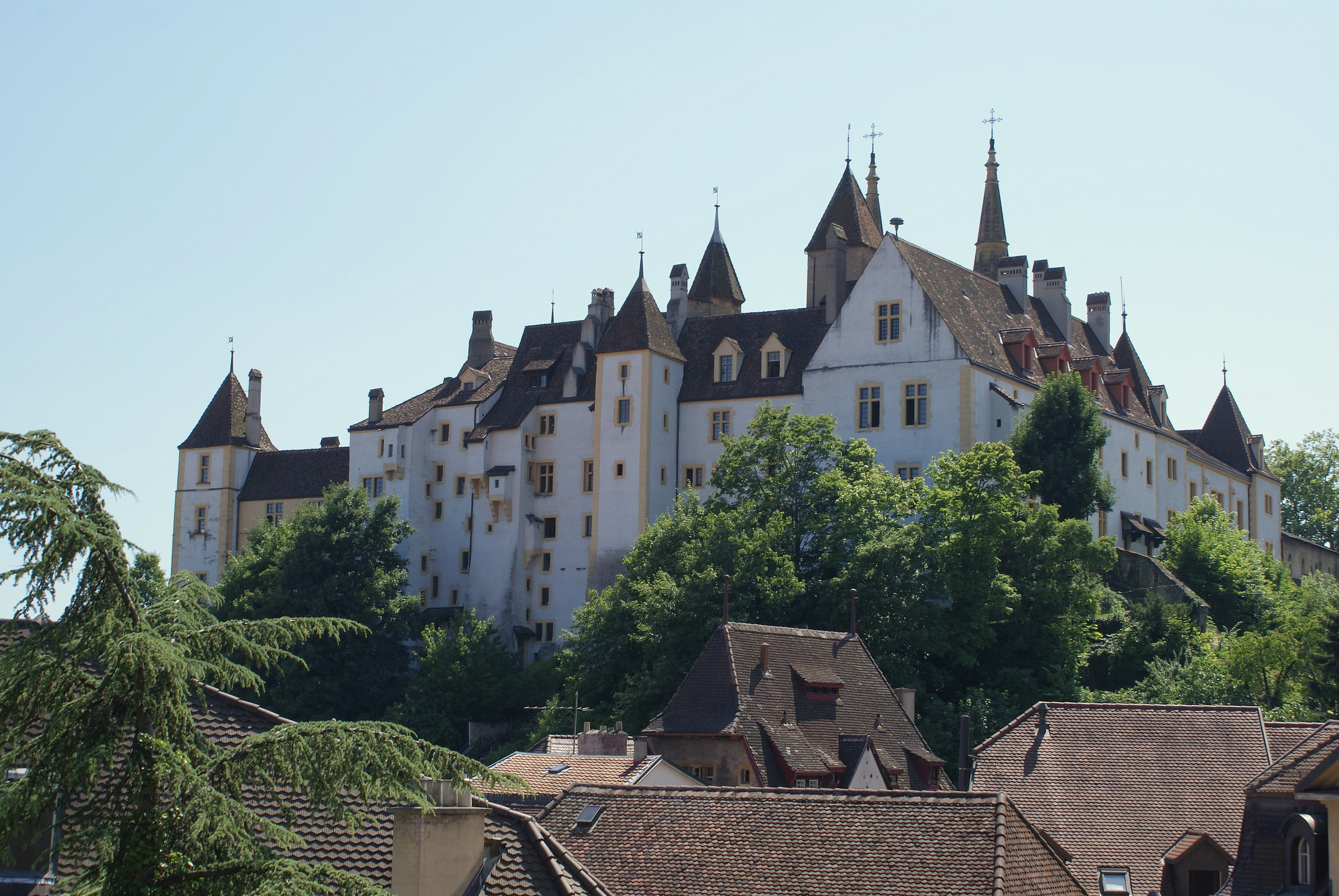 The castle of Neuchâtel seen from the North-east.